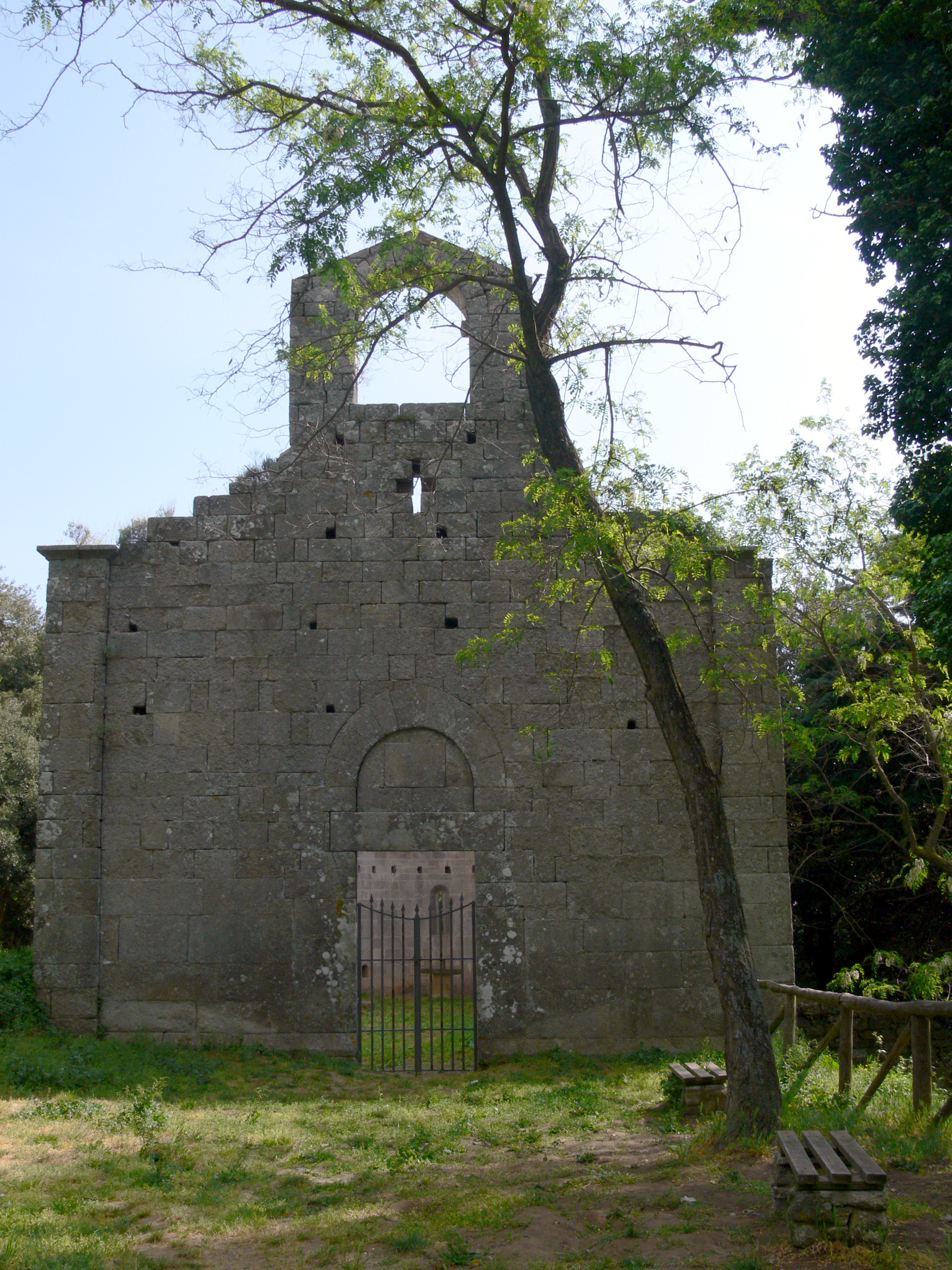 Church ruin of San Giovanni ( Elba ): Facade.